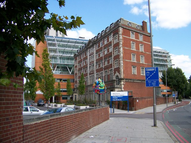 Evelina Children's Hospital at St Thomas's Hospital The Evelina Children's Hospital from Guy's and St Thomas' moved to this stunning new purpose built hospital at St Thomas' in 2005. With everything from the menus and furnishings to the design of the building itself chosen by children, it's something truly special. It is also London's first new children's hospital for more than 100 years.